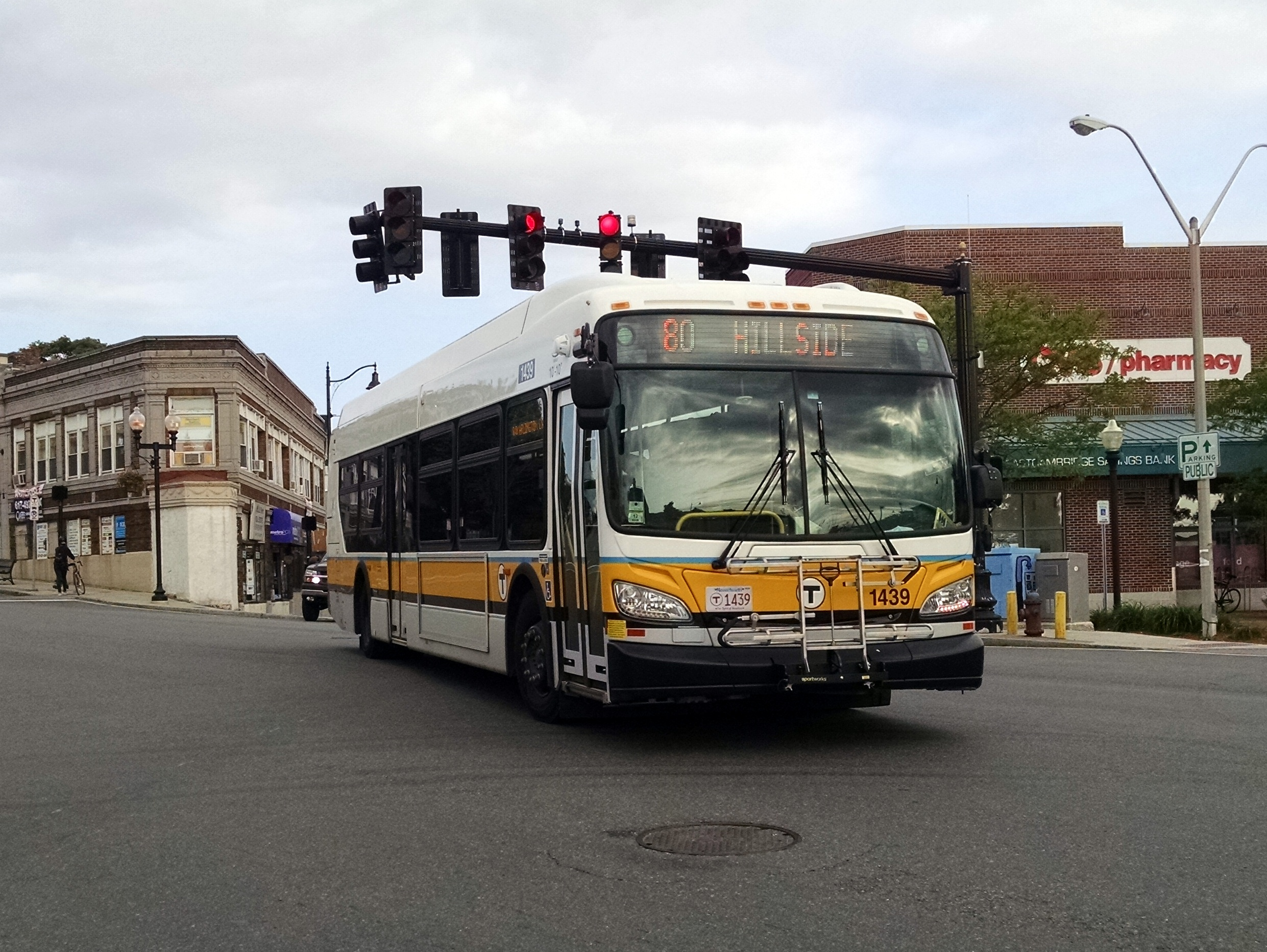 An outbound route 80 turns from Medford Street onto Broadway in Magoun Square in June 2015